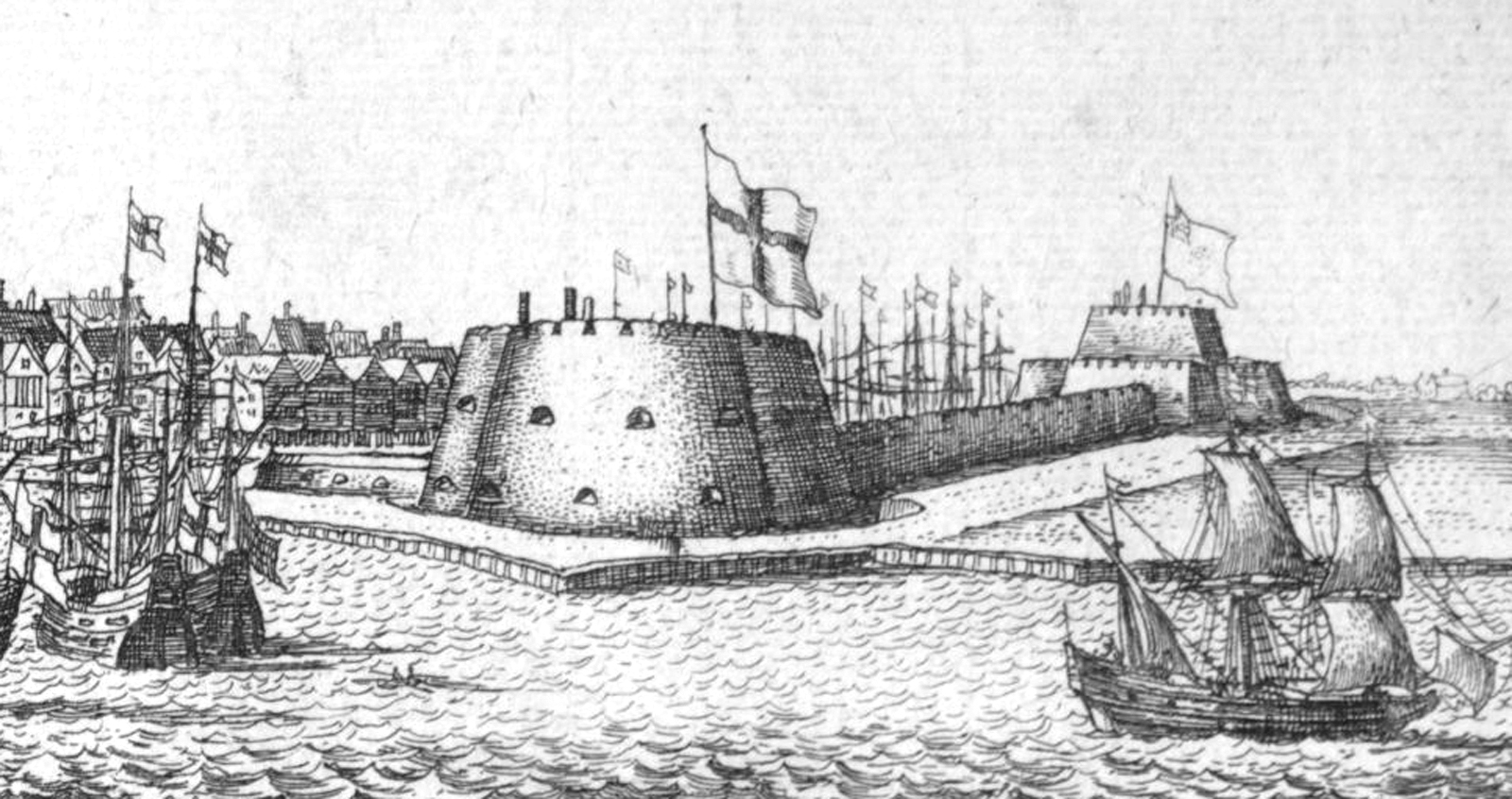 Detail of map of Hull